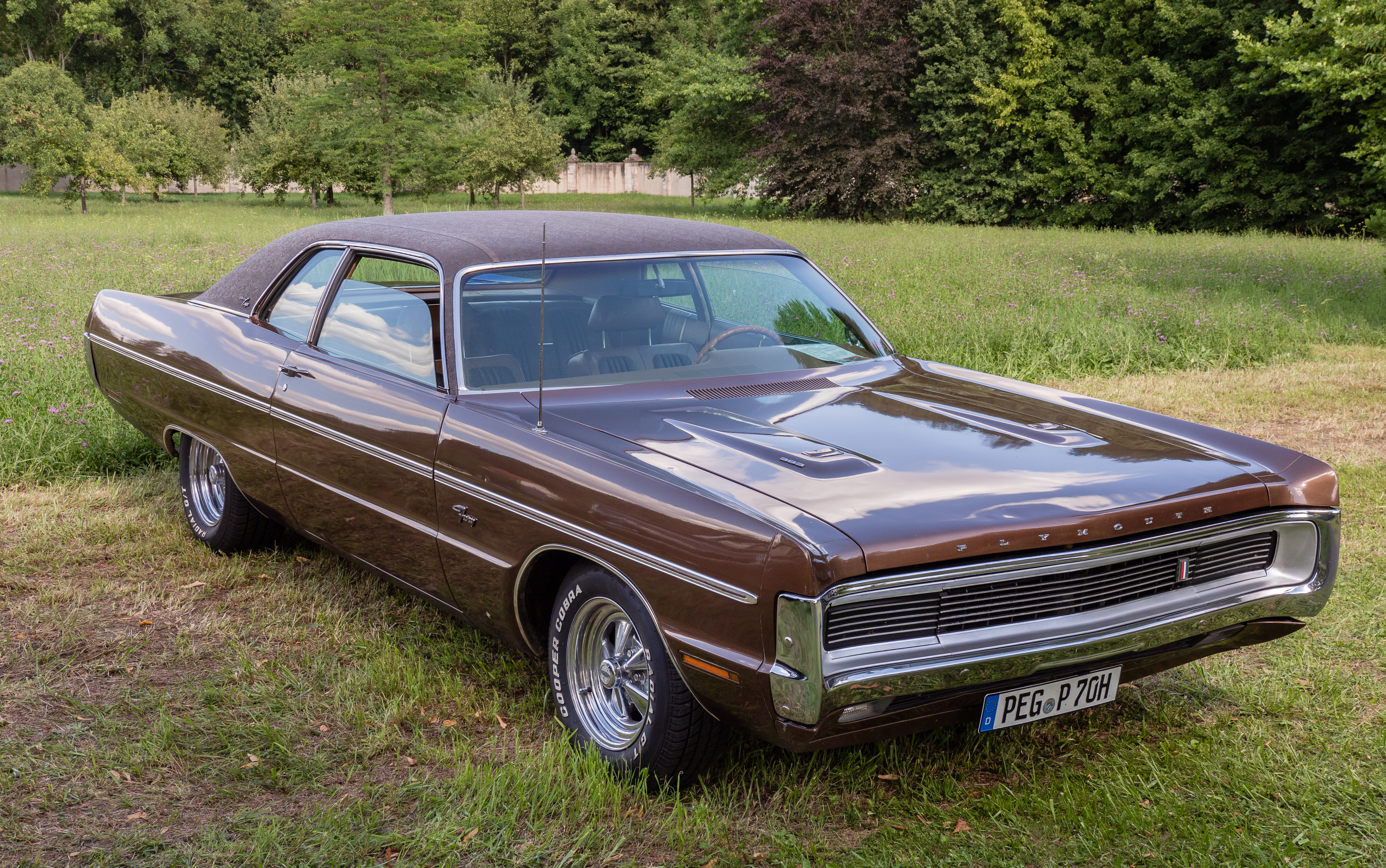 Plymouth Fury at the Gleisenau 2019 classic car meeting